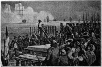 Jean Bernadotte's—who would later become Karl XIV Johan av Sverige—landing at Helsingborg October 1810